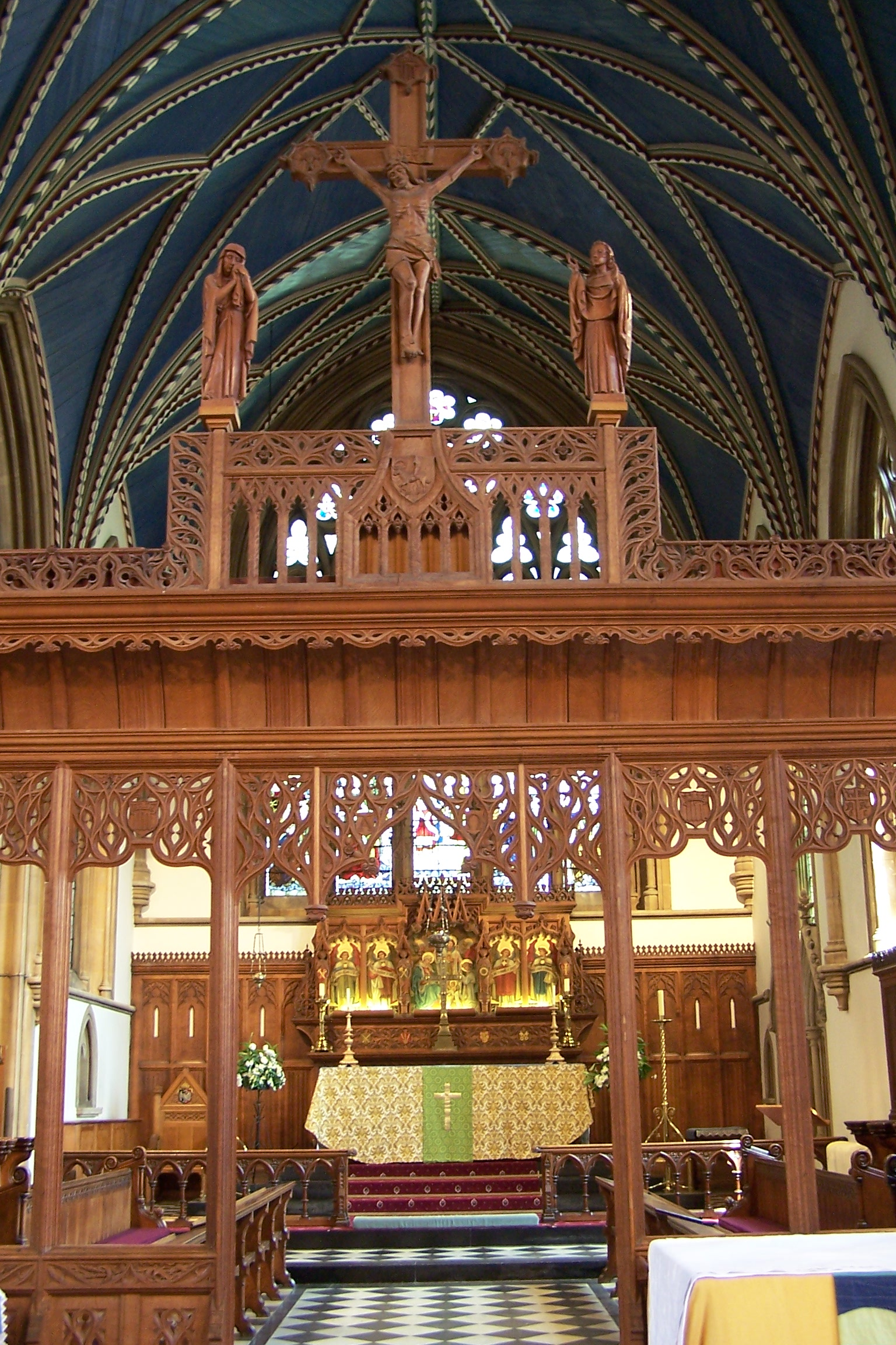 St Peter and Paul's parish church in Buckingham. Rood screen, choir and high altar.